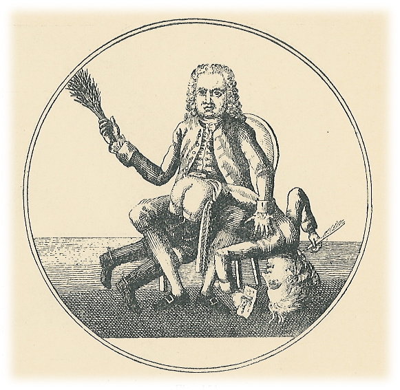 "En skribent får ris" ("an author gets a critique"). Satirical etching from 1772 against the newly instituted censorship.